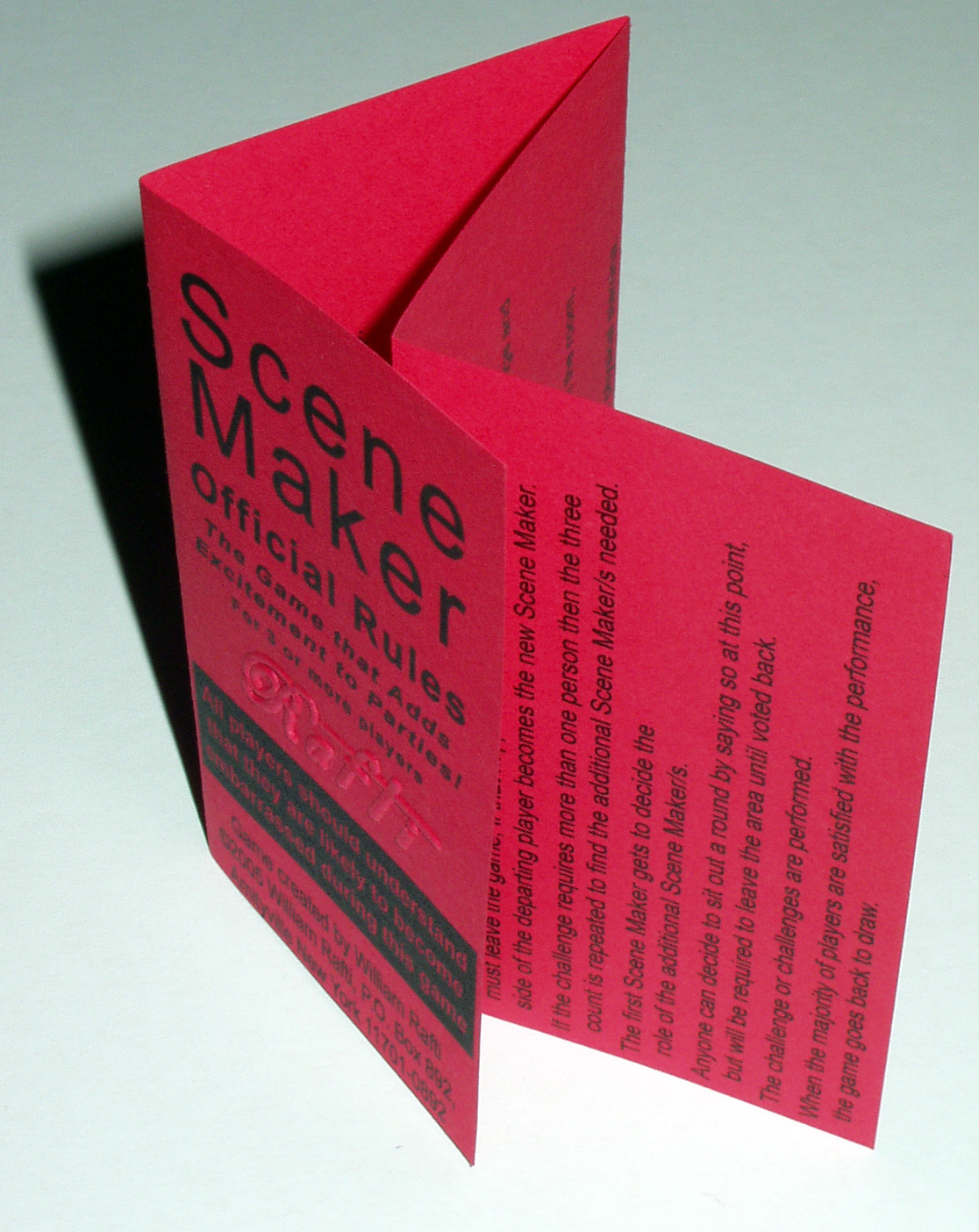 A modern chapbook, in this case for a party game.